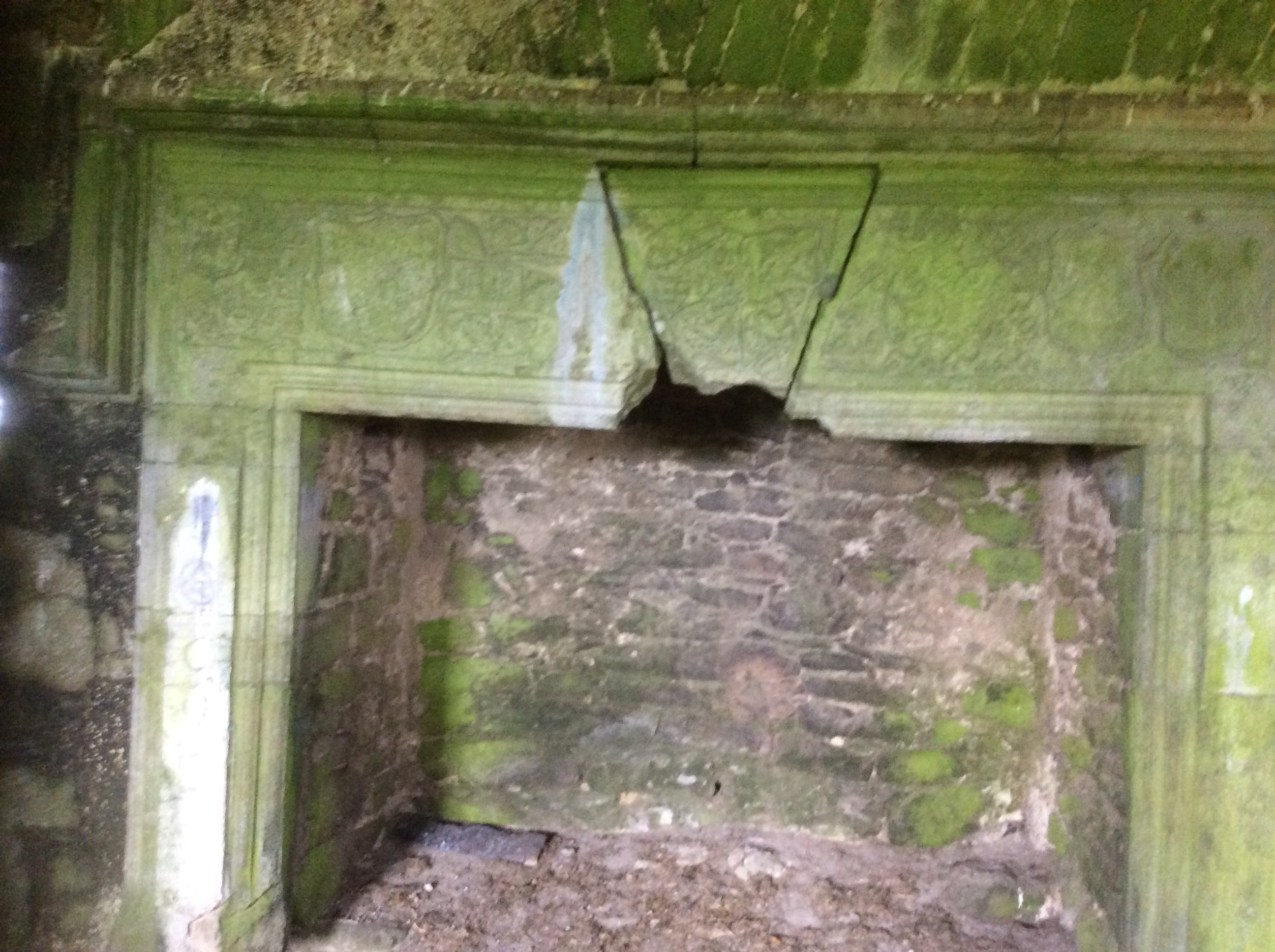 Loughmoe castle, Co. Tipperary, Ireland